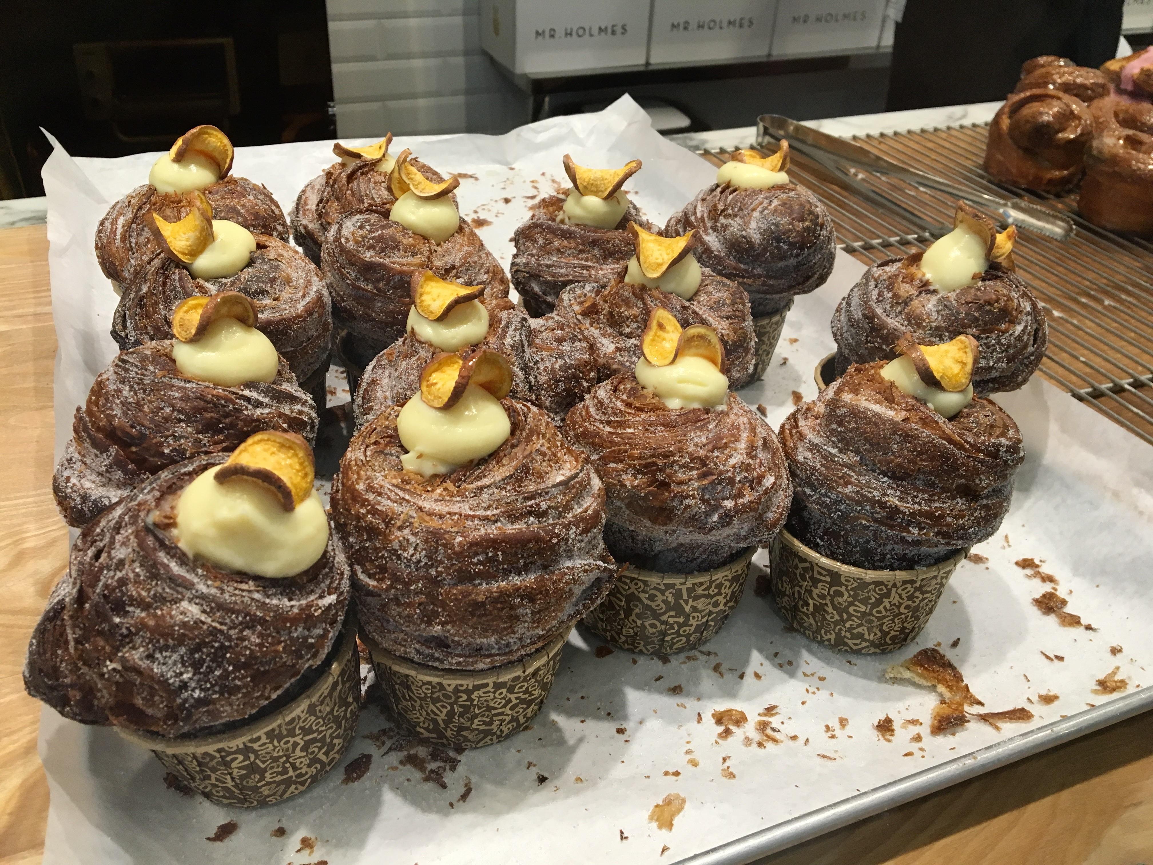 Cruffins at Mr.Holmes Bakehouse in Seoul, Korea